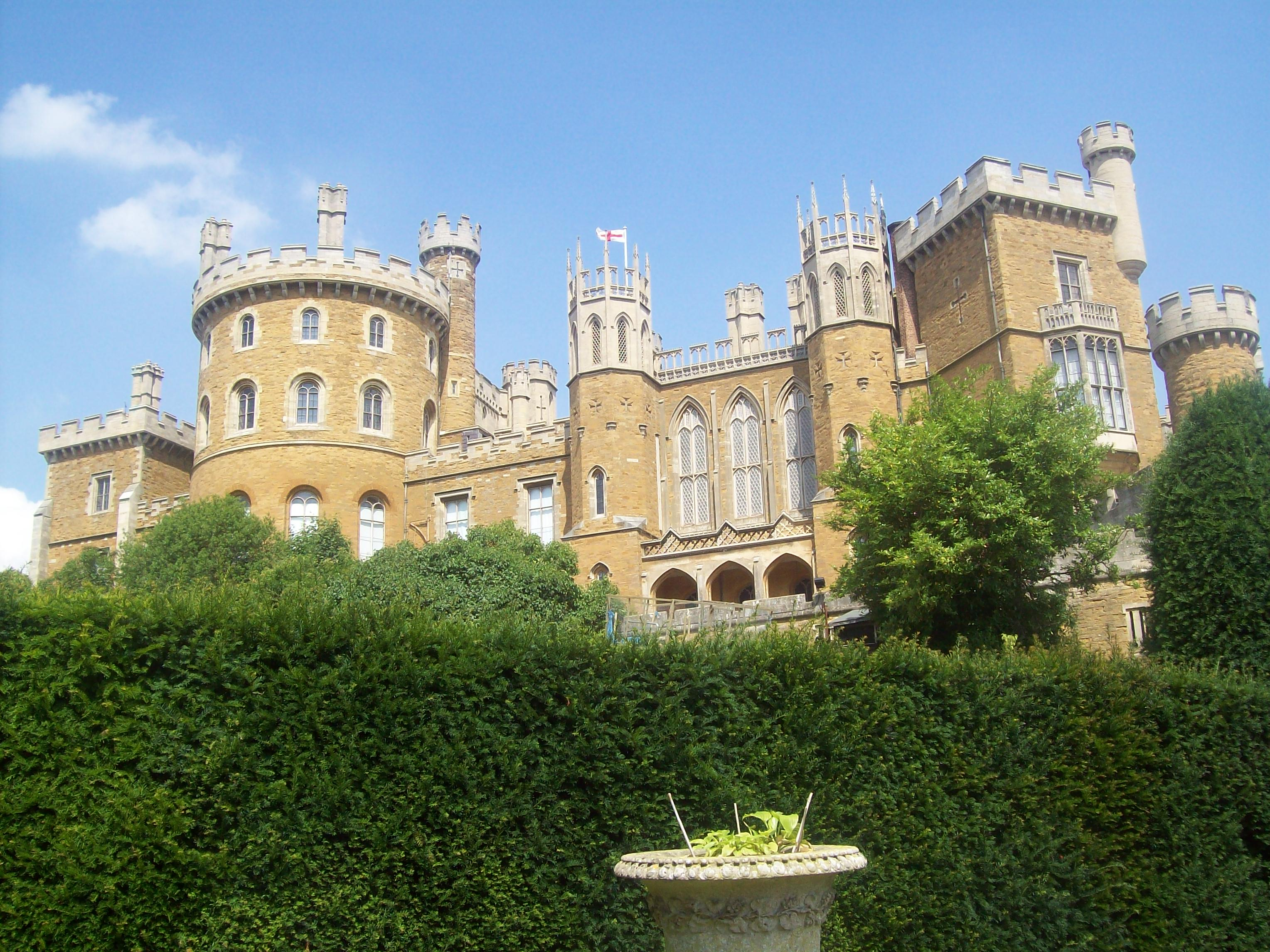 Belvoir Castle in England.